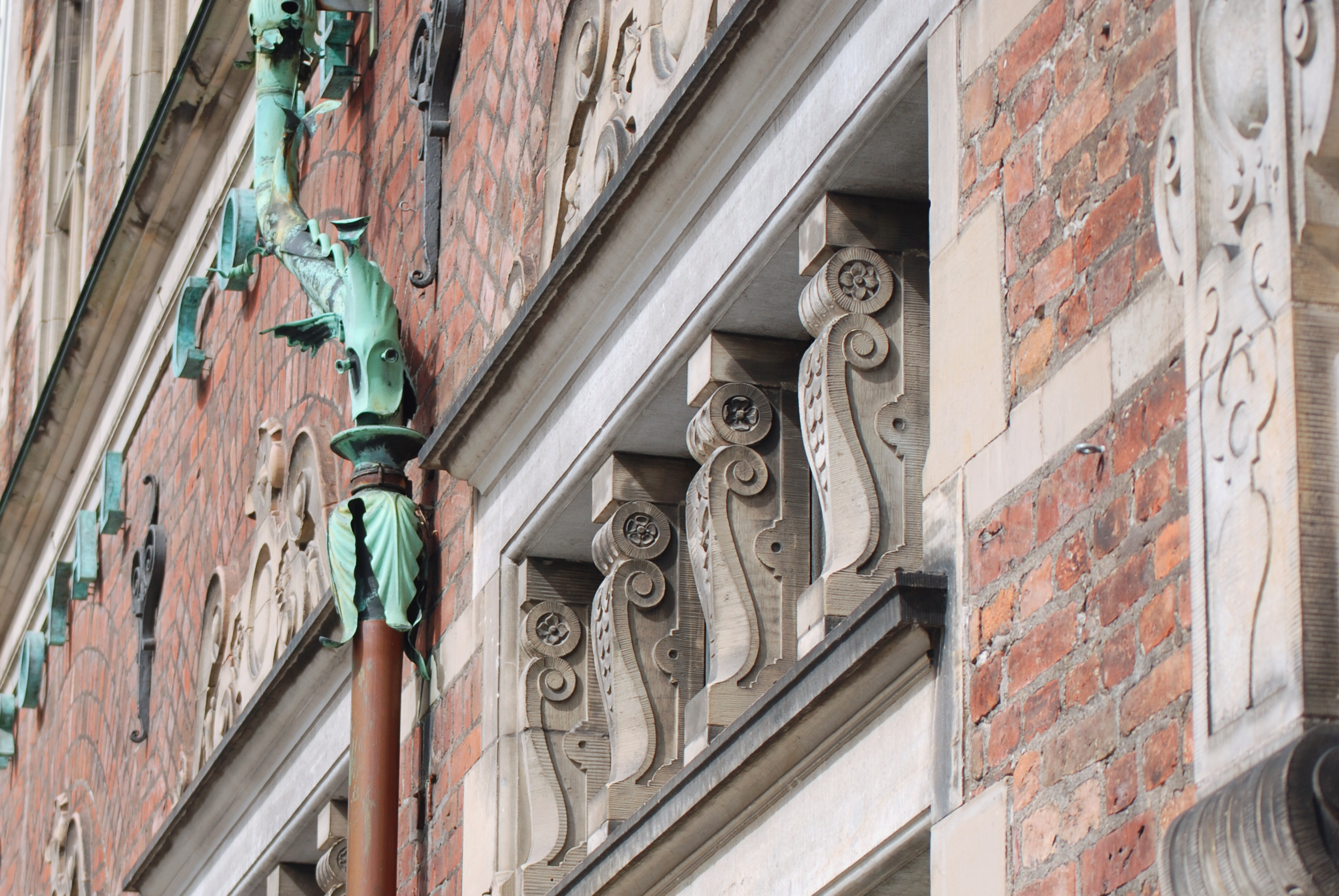 Dragon-headed drainage on 8 Amagertorv (Georg Jensen's shop) in central Copenhagen, Denmark